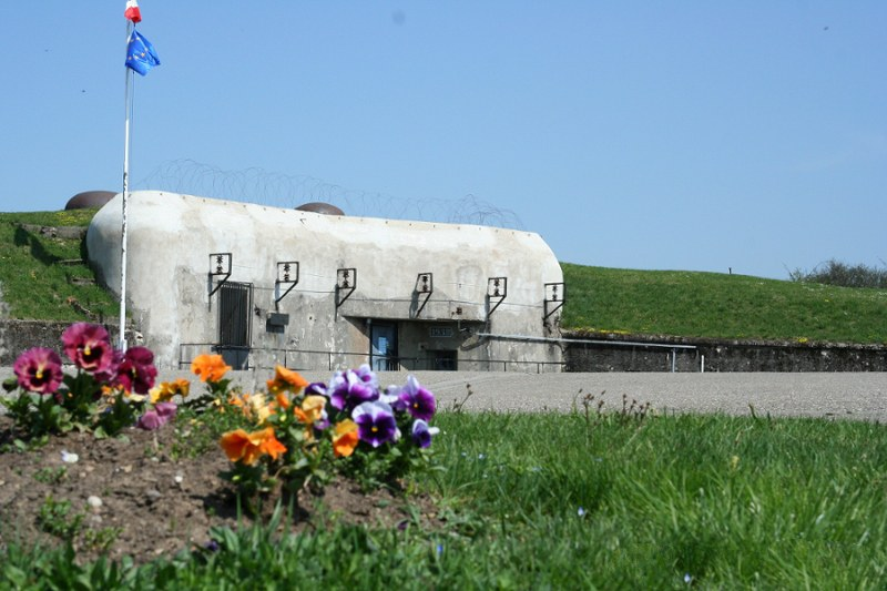 Fort Casso - Bloc II - Mixed Entry